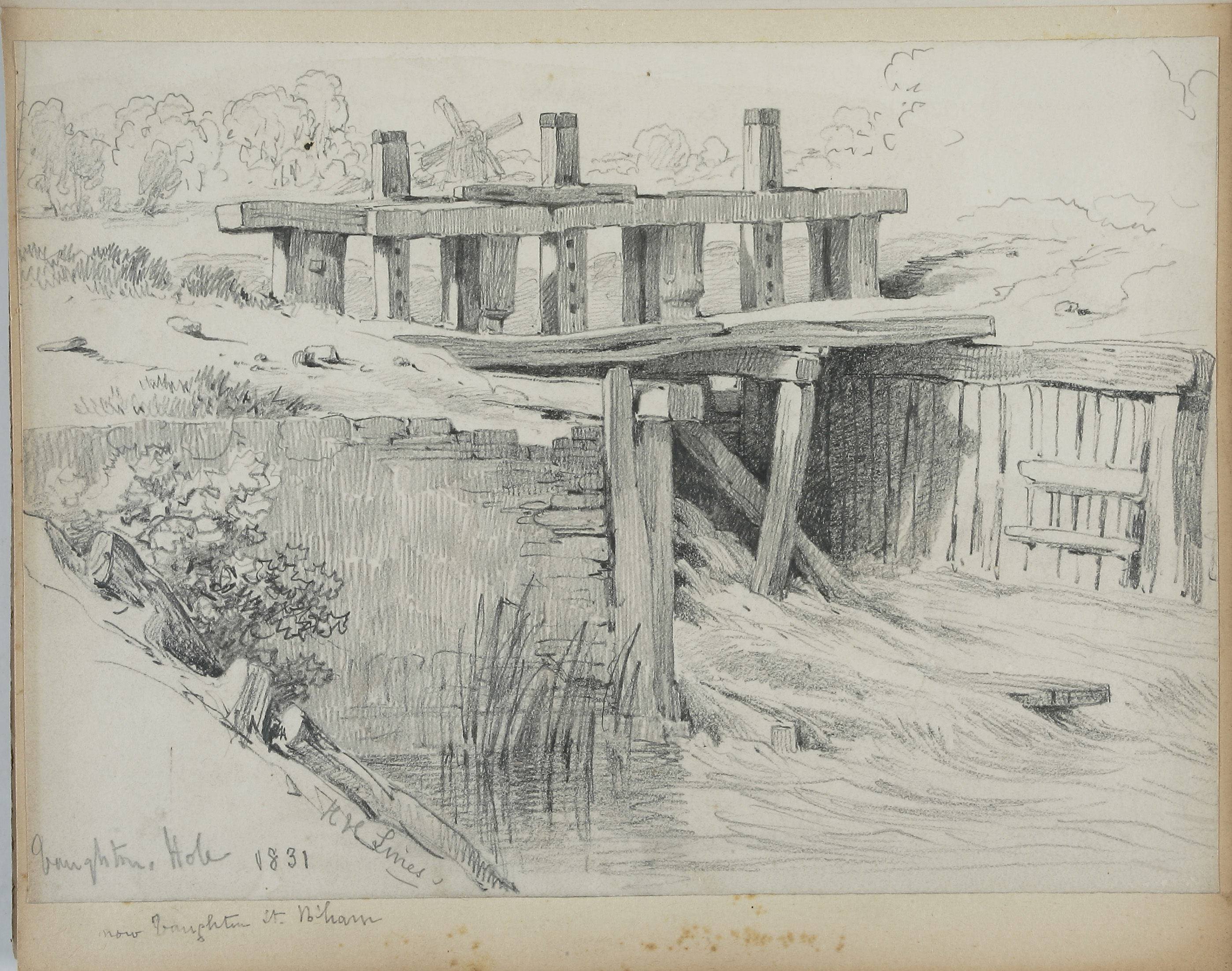 A floodgate on the River Rea at Vaughton’s Hole (now Vaughton St.), Highgate, Birmingham, England. Pencil on paper; 279 x 197mm Inscr. bl.: Vaughton’s Hole 1831/ H H Lines, and on mount: now Vaughton St B’ham Accession: BIRSA:2007X.490 From the Lines family sketchbook, in the collection of the Royal Birmingham Society of Artists, Birmingham, England. See Rediscovering the Lines Family - Exhibition catalogue - 2009.